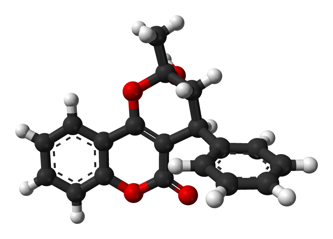 Ball-and-stick model of the warfarin molecule, as found in the crystal structure. X-ray crystallographic data from Acta Cryst. (1975). B31, 954-960 Model constructed in CrystalMaker 8.1. Image generated in Accelrys DS Visualizer.